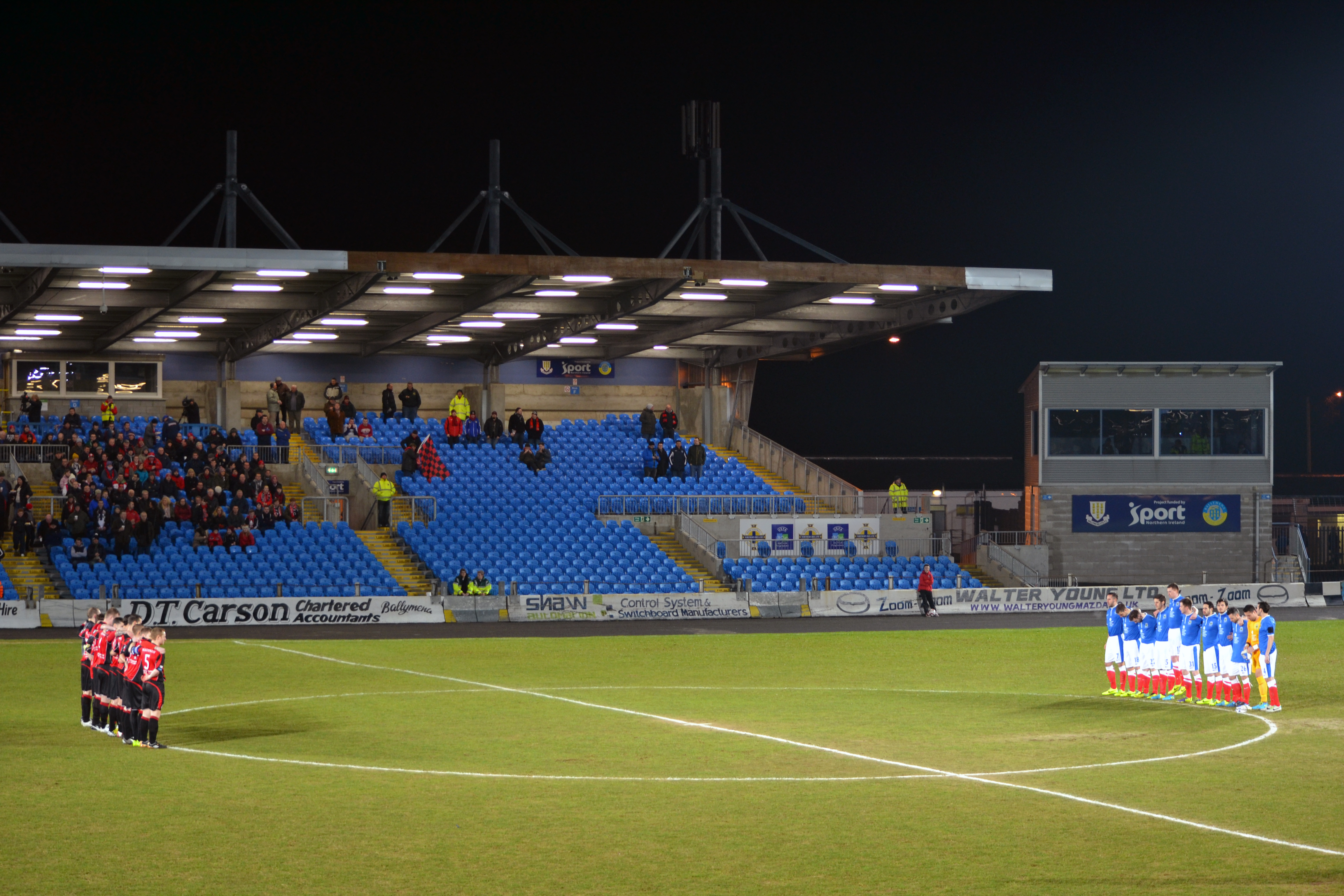 Linfield v Crusaders - County Antrim Shield Final played at Ballymena Showgrounds on 4 March 2014. 0-0 AET, Linfield won 4-1 on penalties.